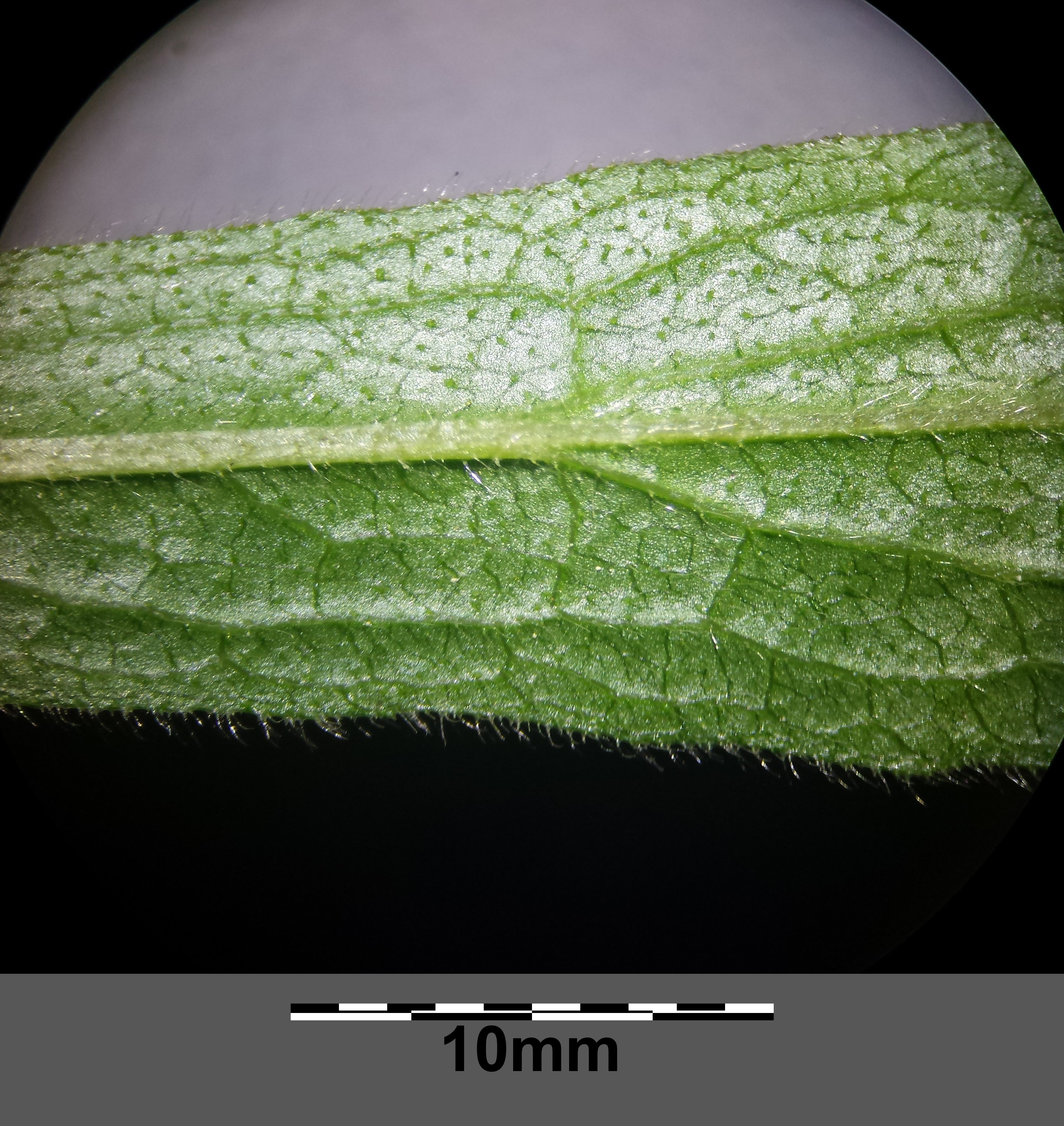 Bottom-side of leaf Taxonym: Inula hirta ss Fischer et al. EfÖLS 2008 ISBN 978-3-85474-187-9 Location: semi-dry grasslands and wine yards to the north of Oberthern, municipality Heldenberg, district Hollabrunn, Lower Austria - ca. 300 m ü. A. Habitat: border of a shrubbery